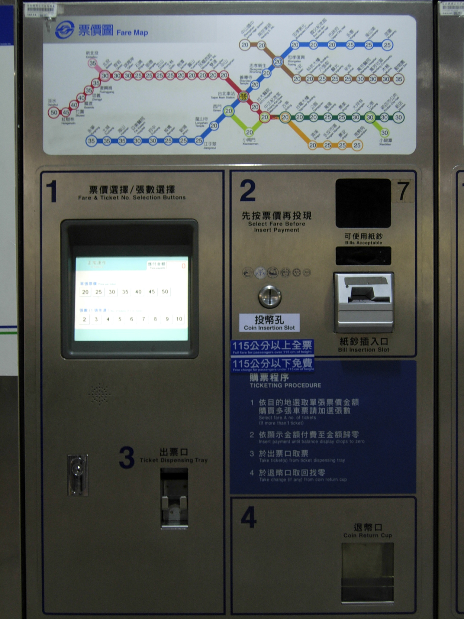 Taipei MRT Taipei Main Station ticket machine（touchscreen style）